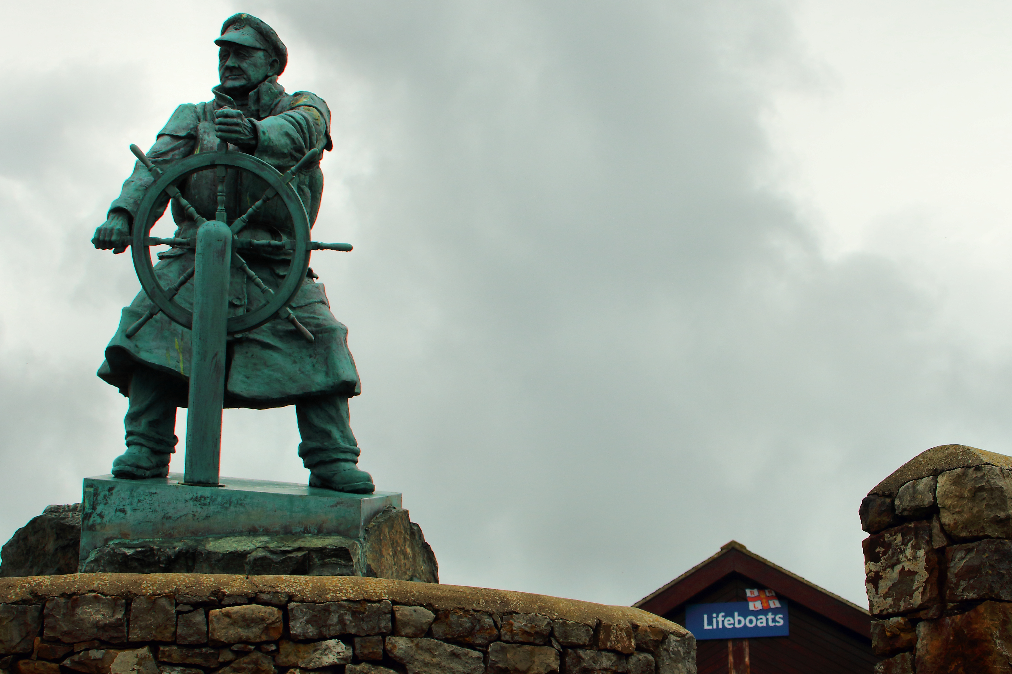 Anglesey 2015 - Holiday